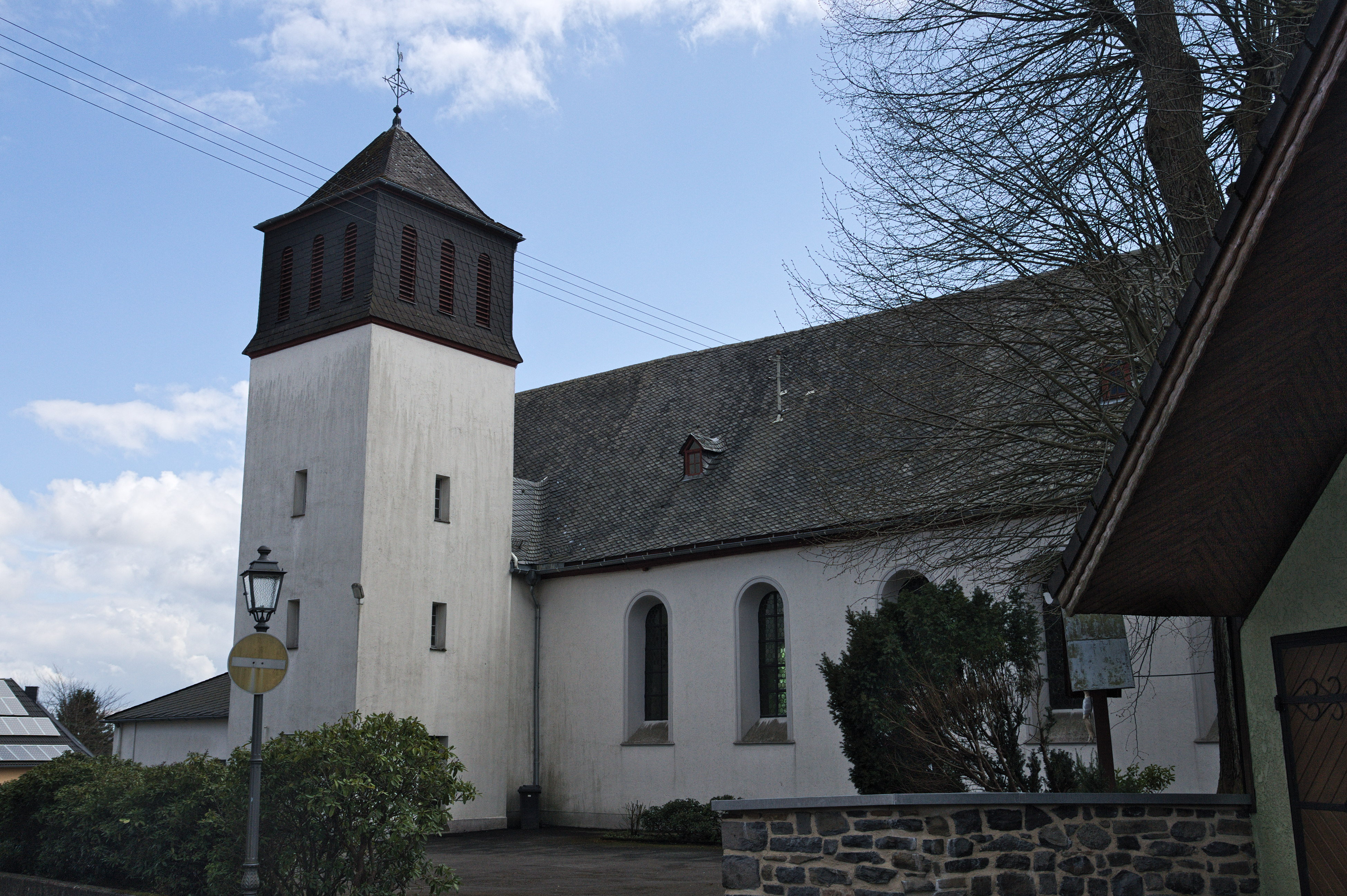 Catholic Church St. Martin. View from north. Erected 1743, enlarged 1938/39. Location: Kirchstraße, Rotenhain, Westerwald, Germany